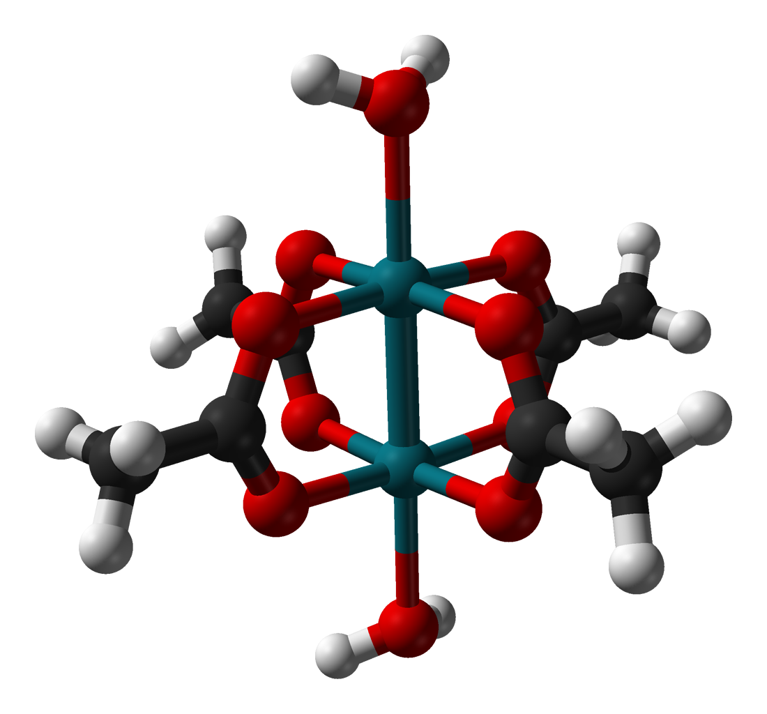 Ball-and-stick model of the rhodium(II) acetate hydrate dimer (dirhodium tetraacetate dihydrate), C8H16O10Rh2, as found in the crystal structure. X-ray diffraction data from Acta Cryst. (1971). B27, 1664-1671. Model constructed in CrystalMaker 8.1. Image generated in Accelrys DS Visualizer.